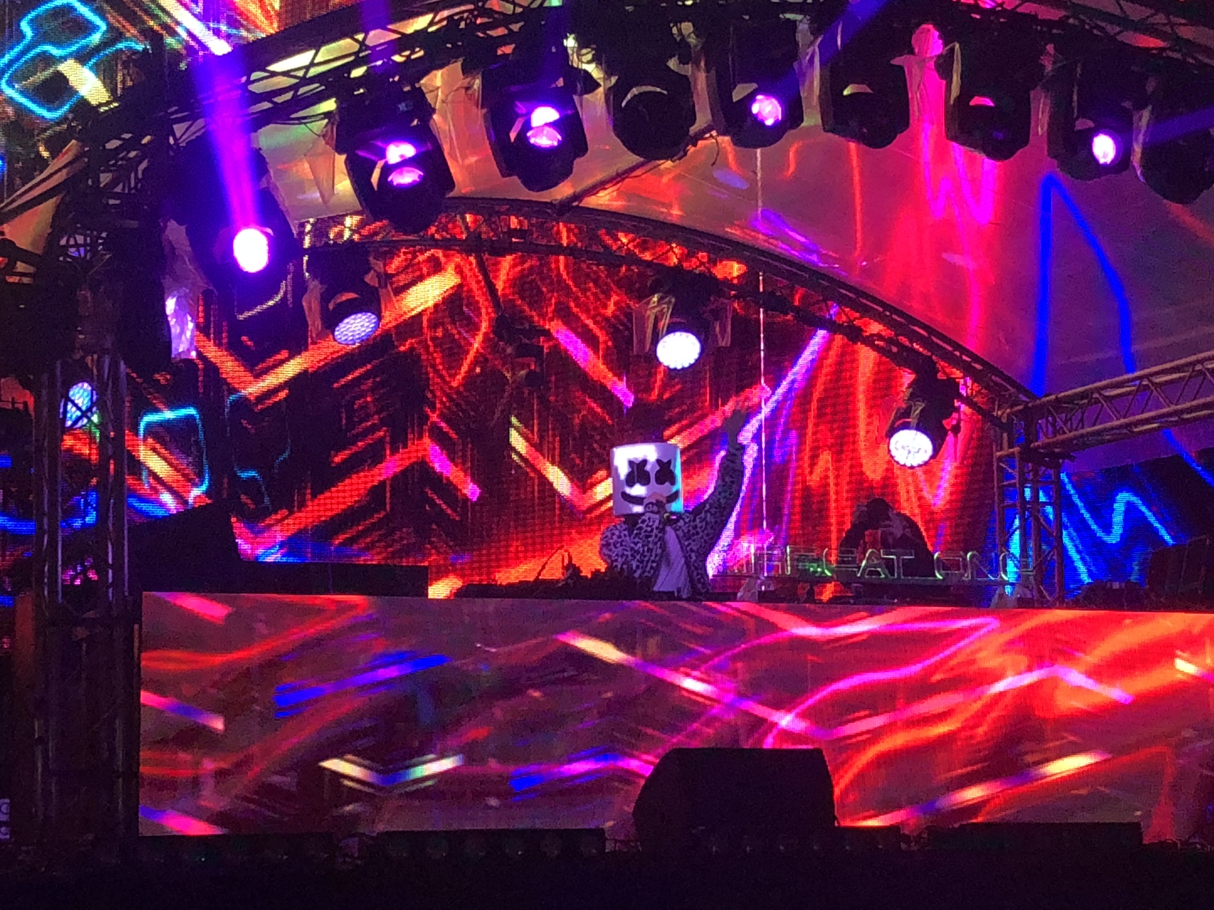 Marshmello playing live at Airbeat One Festival 2018 in Neustadt-Glewe, Germany.